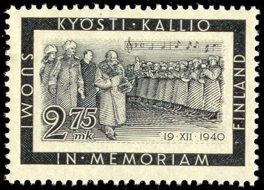 Postage stamp depicting the minutes just before the death of the Finnish president Kyösti Kallio